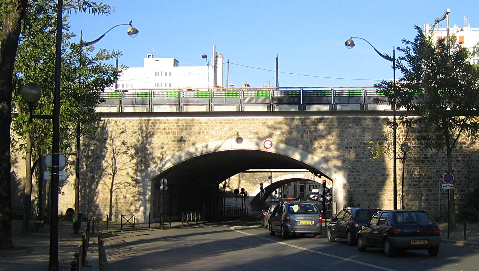 A part of "Enceinte de Thiers" (Paris, France).